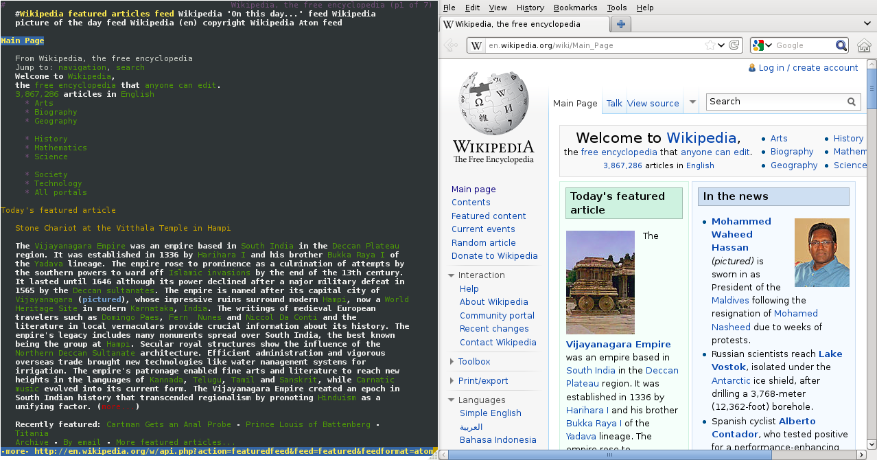 Lynx and Firefox rendering the same version of Wikipedia's Main Page side by side